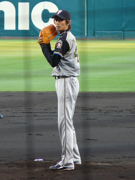 NF-Hirotoshi-Masui20100513